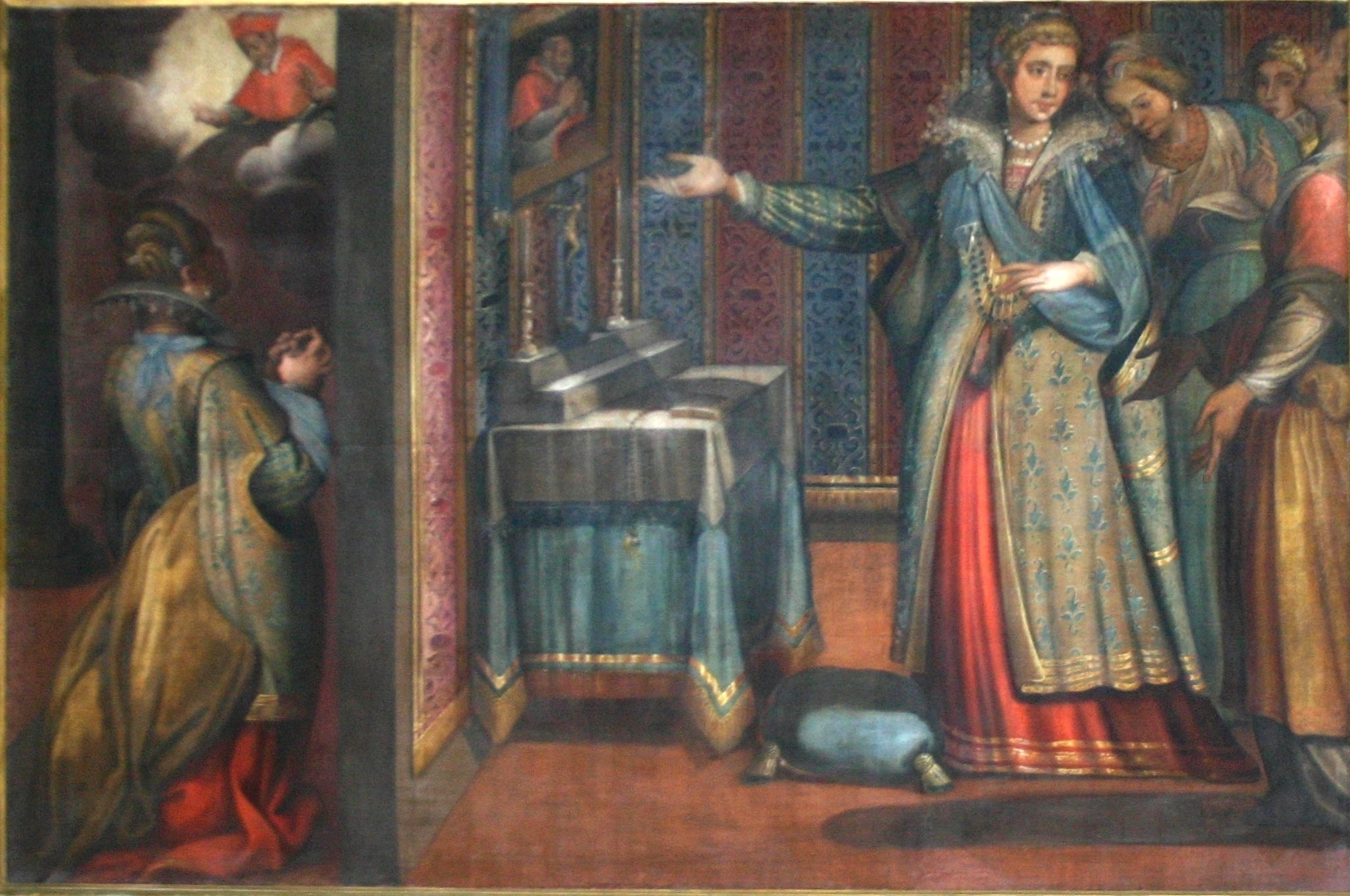 Cathedral in Milan, Italy. "Quadroni of St. Charles". Right side of the main nave, bay 4. Paolo Camillo Landriani called "il Duchino" (c. 1560-c. 1618): "Miracle of Anna Miskowiki (i.e. Miśkowiec) Branika" [1610].